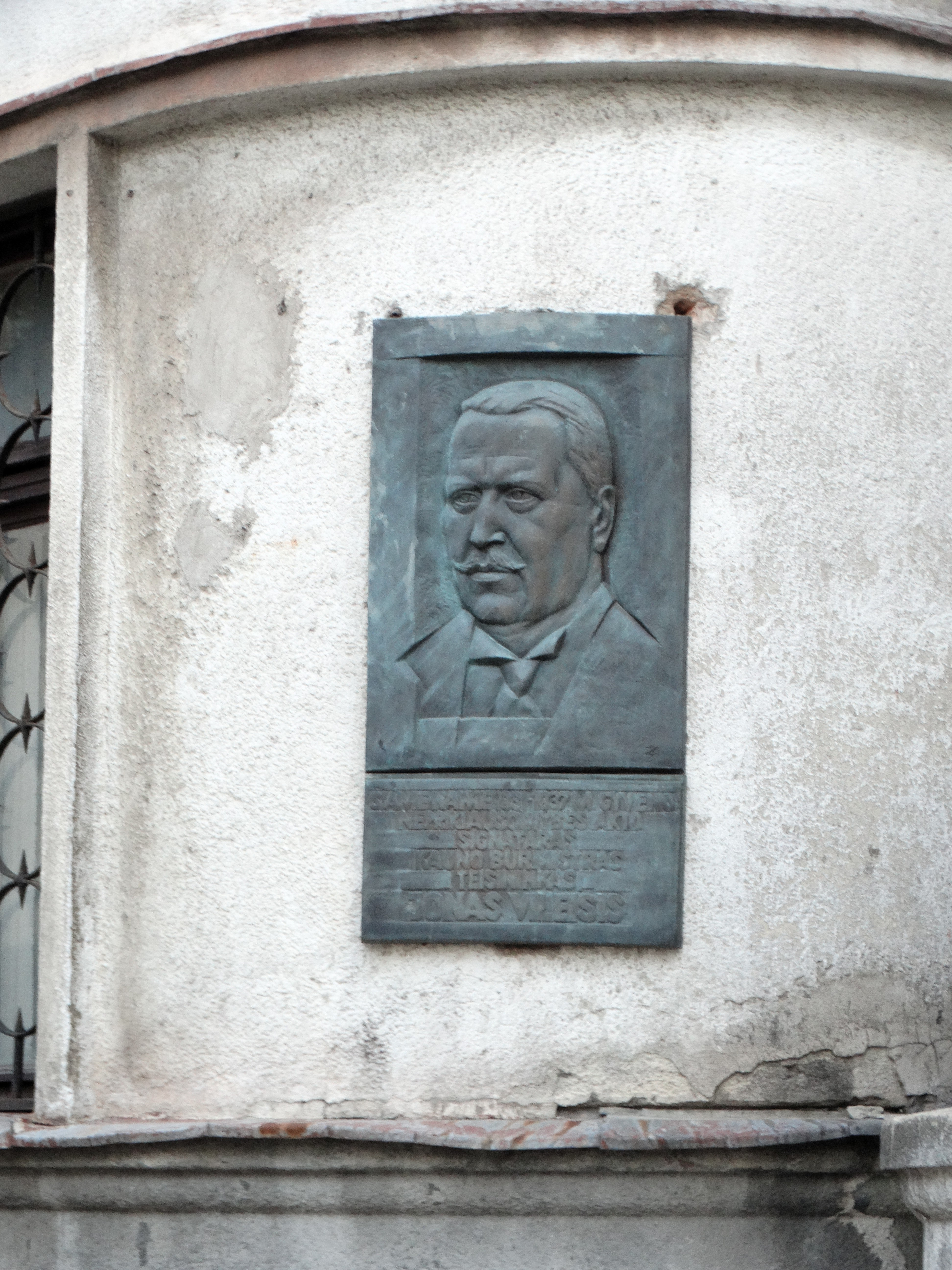 Memorial plaque to Jonas Vileišis, Putvinskio 68, Kaunas, Lithuania